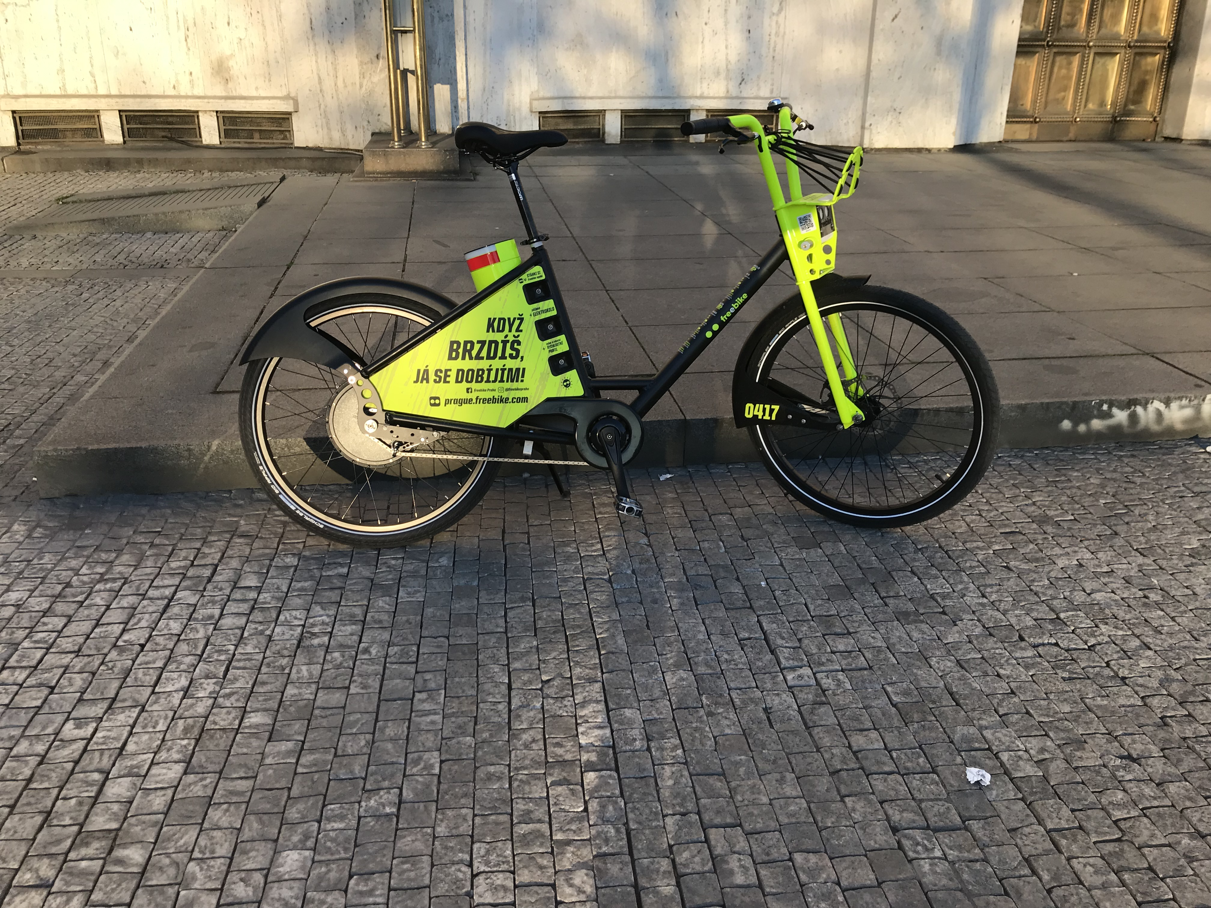 Elektrokolo Freebike, značka a produkt české společnosti zabývající se systémy sdílení jízdních kol